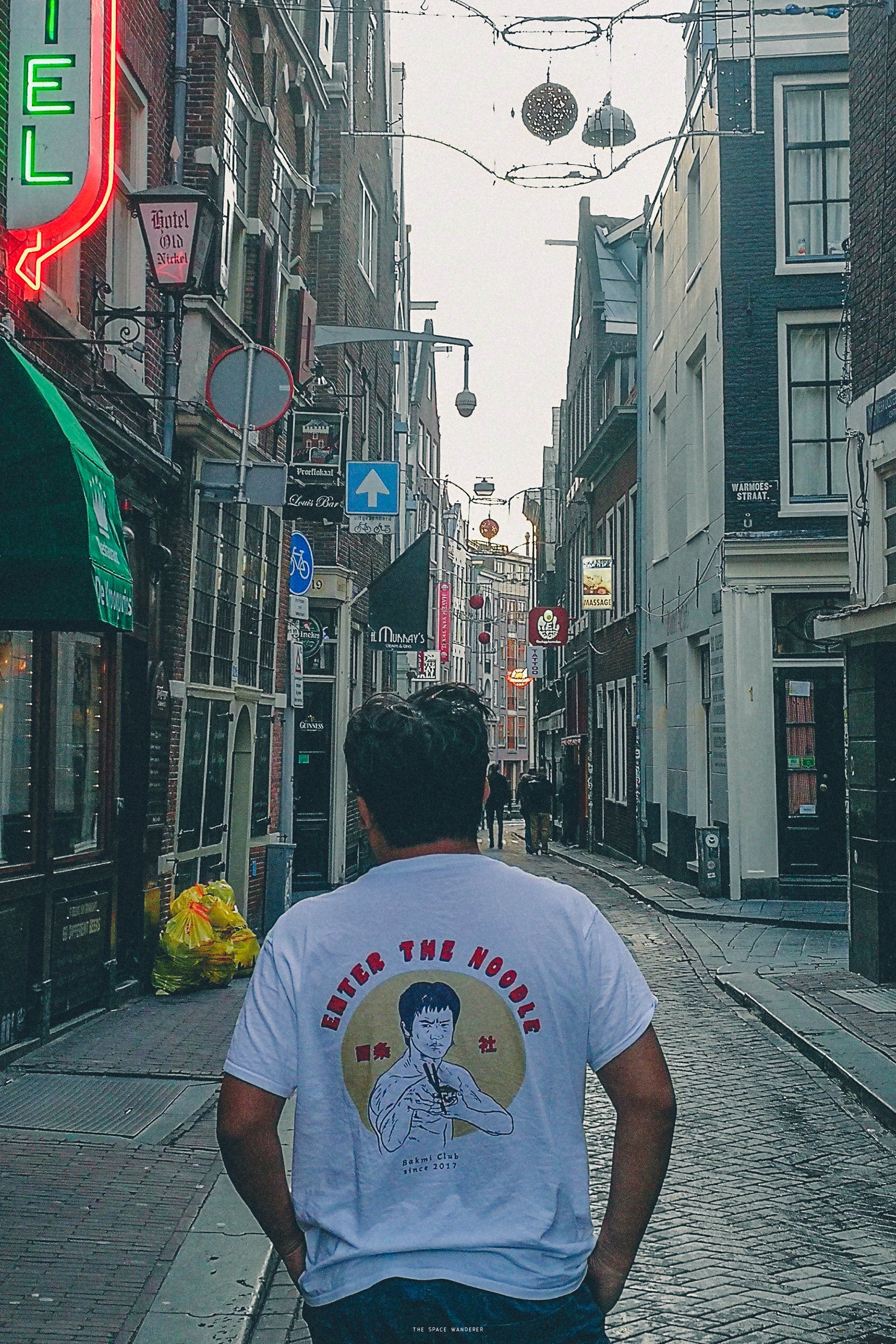 A man standing at Warmoesstraat, Amsterdam